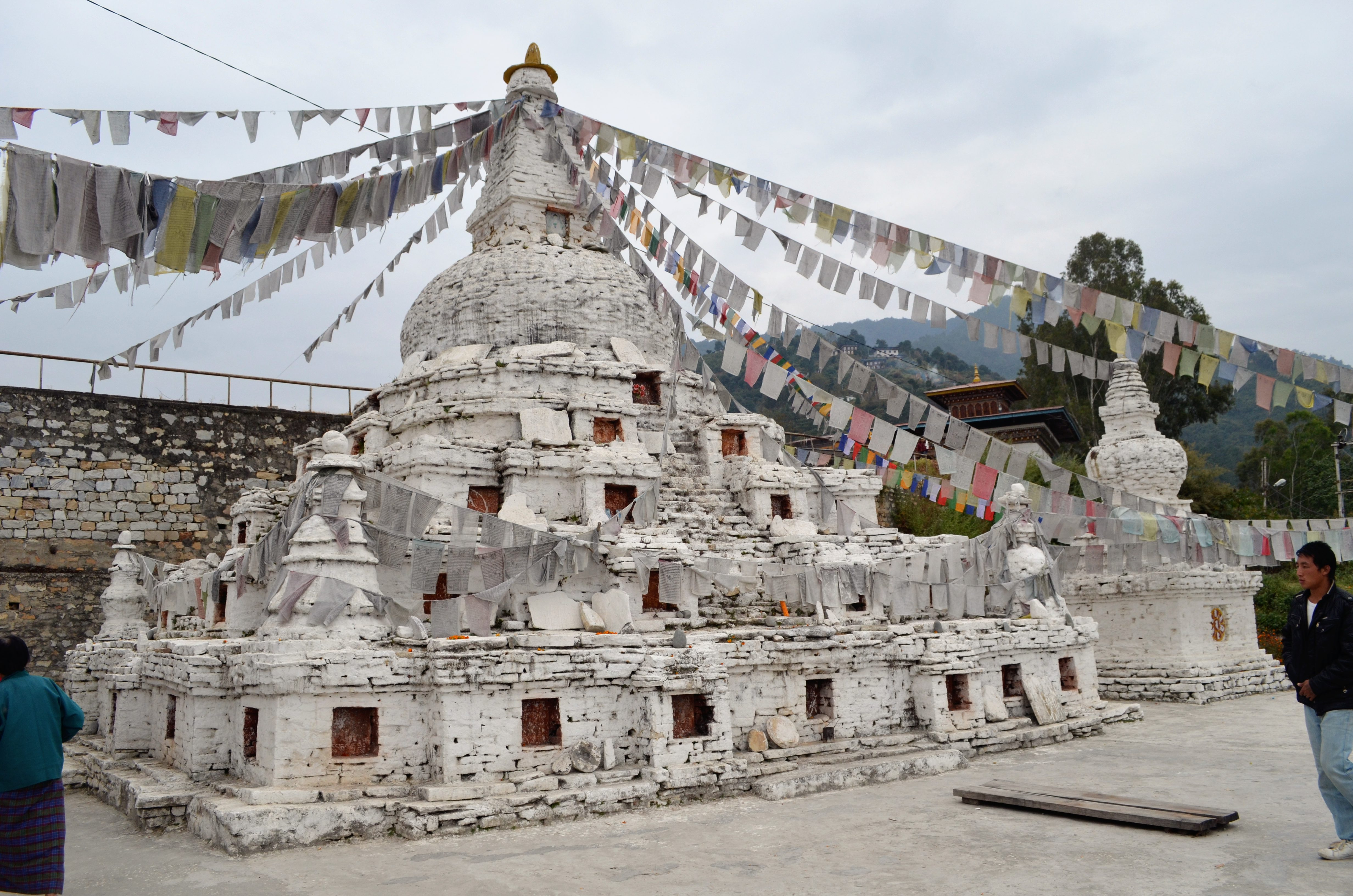 Old Buddhist Chöten (stupa), Mongar Town, Bhutan